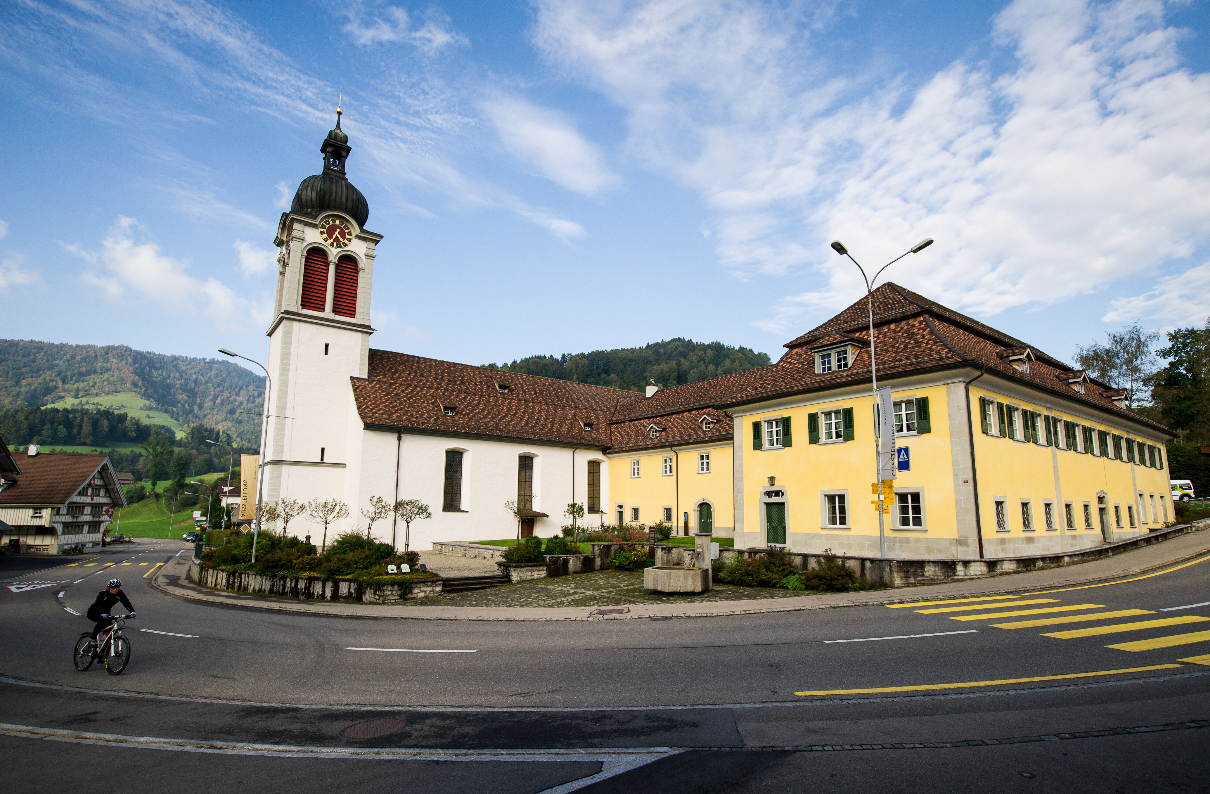 Ehemalige Propstei St. Peter und Paul